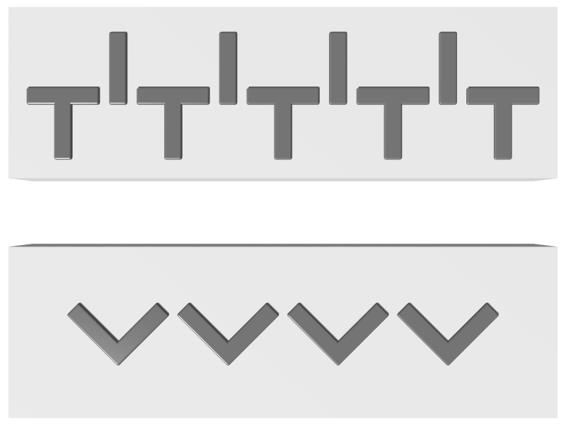 This image shows two possible patterns for the guide pieces in magnetic bubble memory.